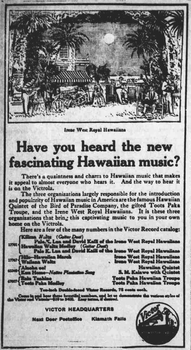 A 1916 advertisement for Hawaiian records from Victor Talking Machine Company. Text: "Have you heard the new fascinating Hawaiian music? "There's a quaintness and charm to Hawaiian music that makes it appeal to almost everyone who hears it. And the way to hear it is on the Victrola. "The three organizations largely responsible for the introduction and popularity of Hawaiian music in America are the famous Hawaiian Quintet of the Bird of Paradise Company, the gifted Toots Paka Troupe, and the Irene West Royal Hawaiians. It is these three organizations that bring this captivating music to you in your own home on the Victrola. ..." The Evening Herald, June 9, 1916, Page 4, Image 4 From the University of Hawaii at Manoa Library